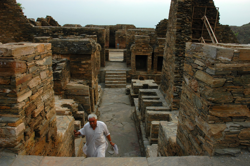 The ruins of the Buddhist Monastery located about 20 KMs from Mardan (about 80 KMs from Peshawar). The person is the keeper 'Inayat Khan' whose tended to these for the last 20 years. Takht Bhai (literally meaning 'Throne Of The Water') is a world heritage and is thousands of years old. Buddhists from all over the world come here to worship.